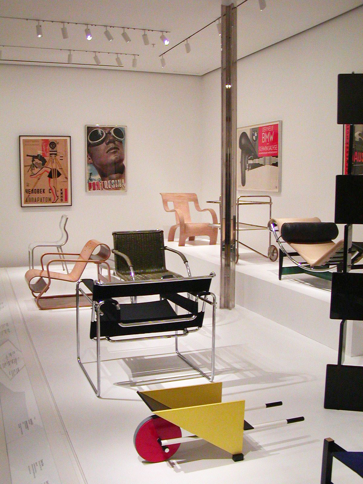 Chairs on display at MOMA in New York City. Photo by Petri Krohn, March 2005.